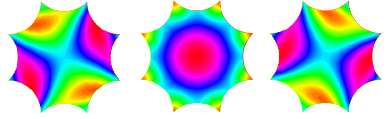 Finite element plots of the three eigenfunctions corresponding to the first positive eigenvalue of the Bolza surface. Functions are zero on the light blue lines.